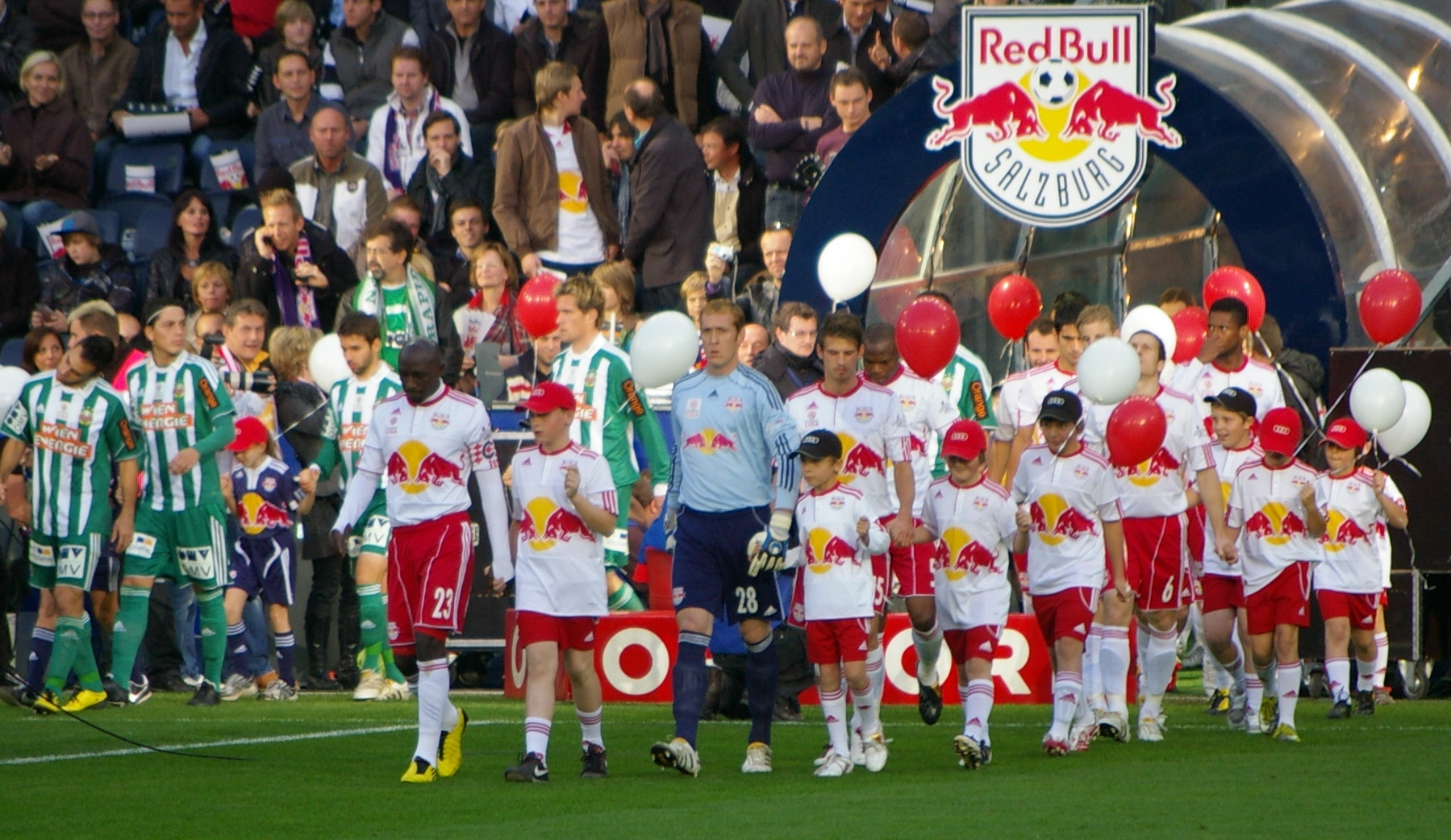 League match